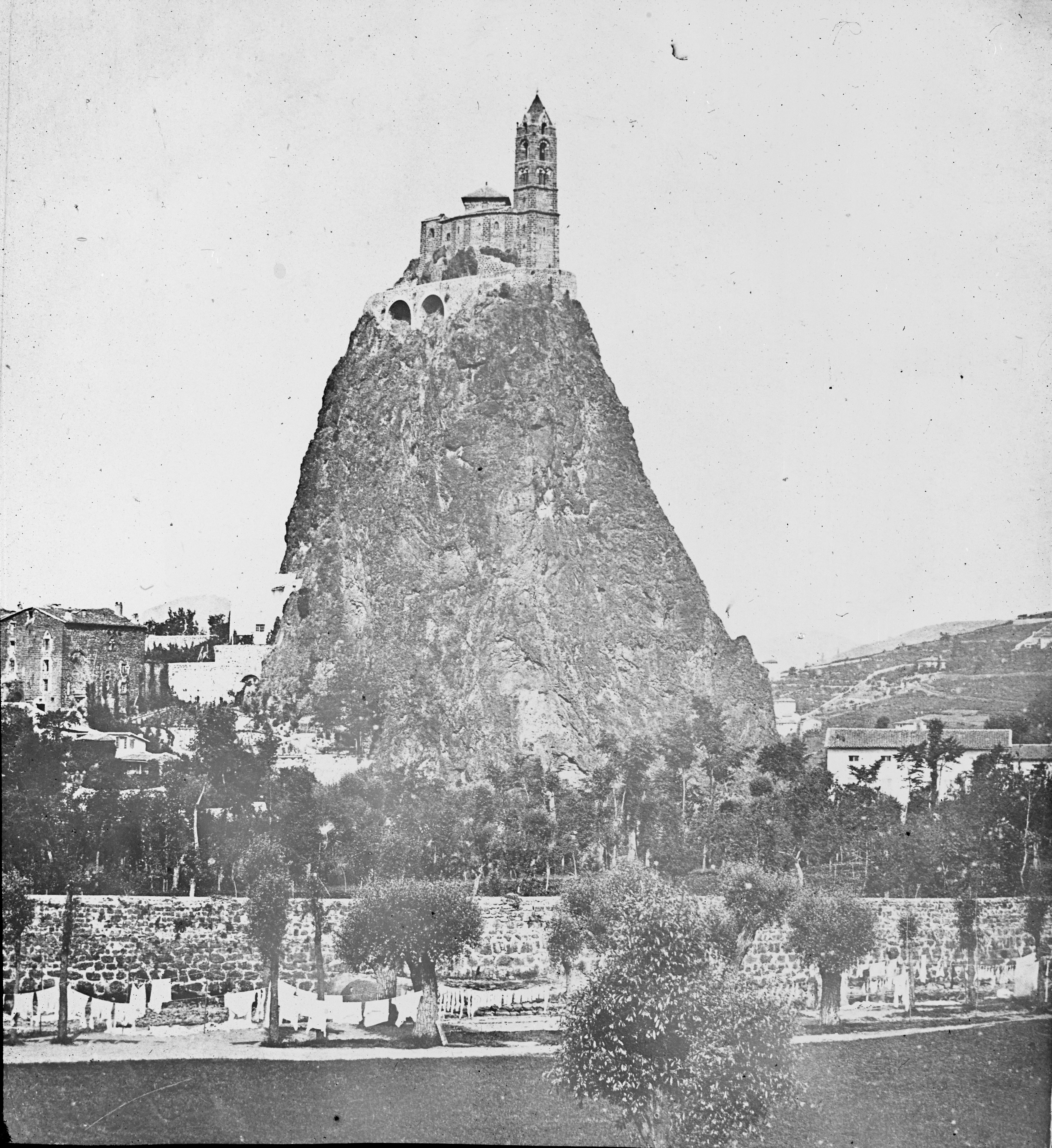 One glass lantern slide. Volcanic breccia neck of l'Aiguille, capped by the chapel of Saint Michael in the town of Le Puy.